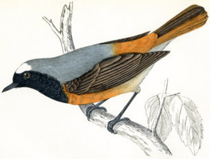 Redstart, originally published in: "A History of British Birds" by Rev. F. O. Morris. Engraved by Benjamin Fawcett; the original plate was hand-painted in colour. From the special Cabinet edition published by Groombridge and Sons c1880. Print caption: Redstart